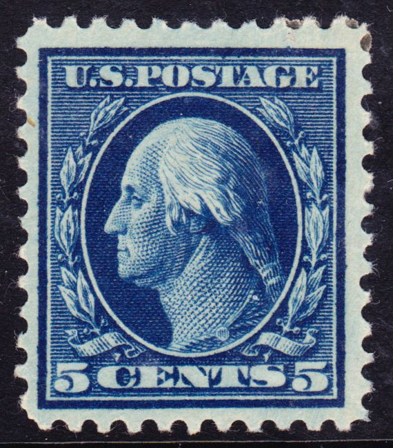 Washington_WF_1917_Issue-5c.jpg